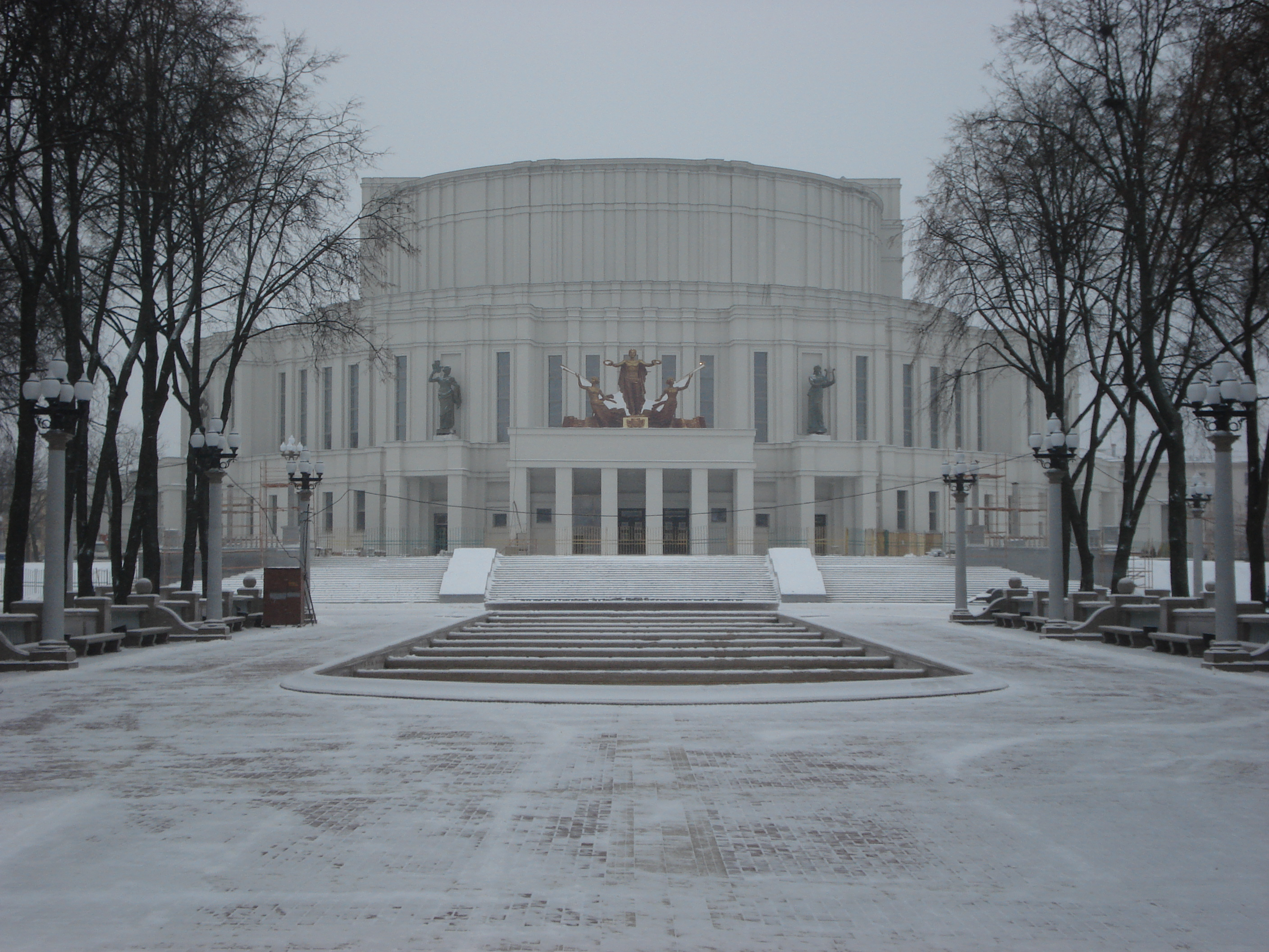 Opera and Ballet Theatre, Minsk